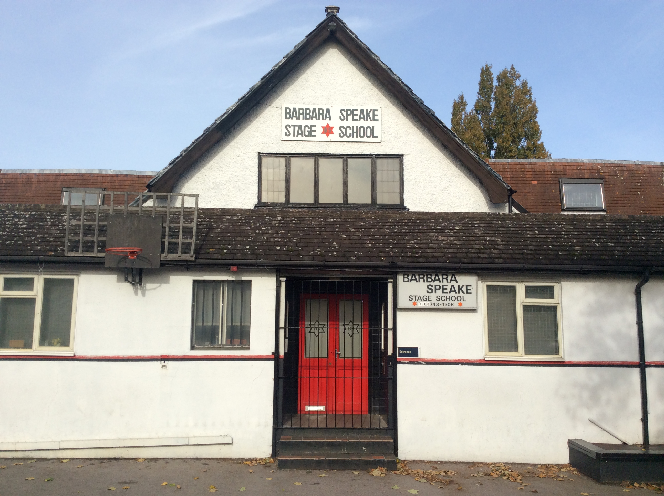 front elevation of the Barbara Speake Stage School, East Acton Lane, Acton, London, United Kingdom